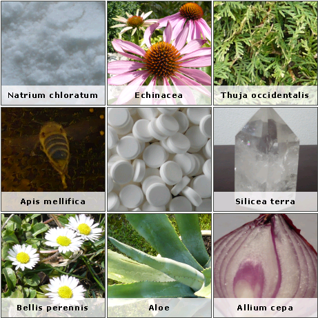 Image: homeopathic substance